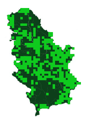 Celastrina argiolus - map of distribuion in Serbia